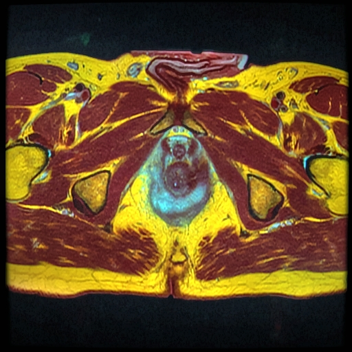 MRI of the male pelvis